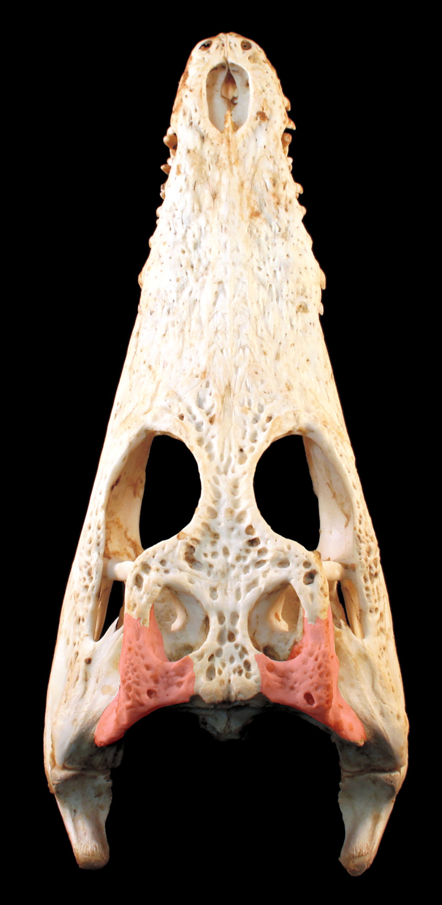 Skull of juvenile Nile crocodile (Crocodylus niloticus, Family: Crocodylidae) in dorsal view with its squamosals highlighted in red.